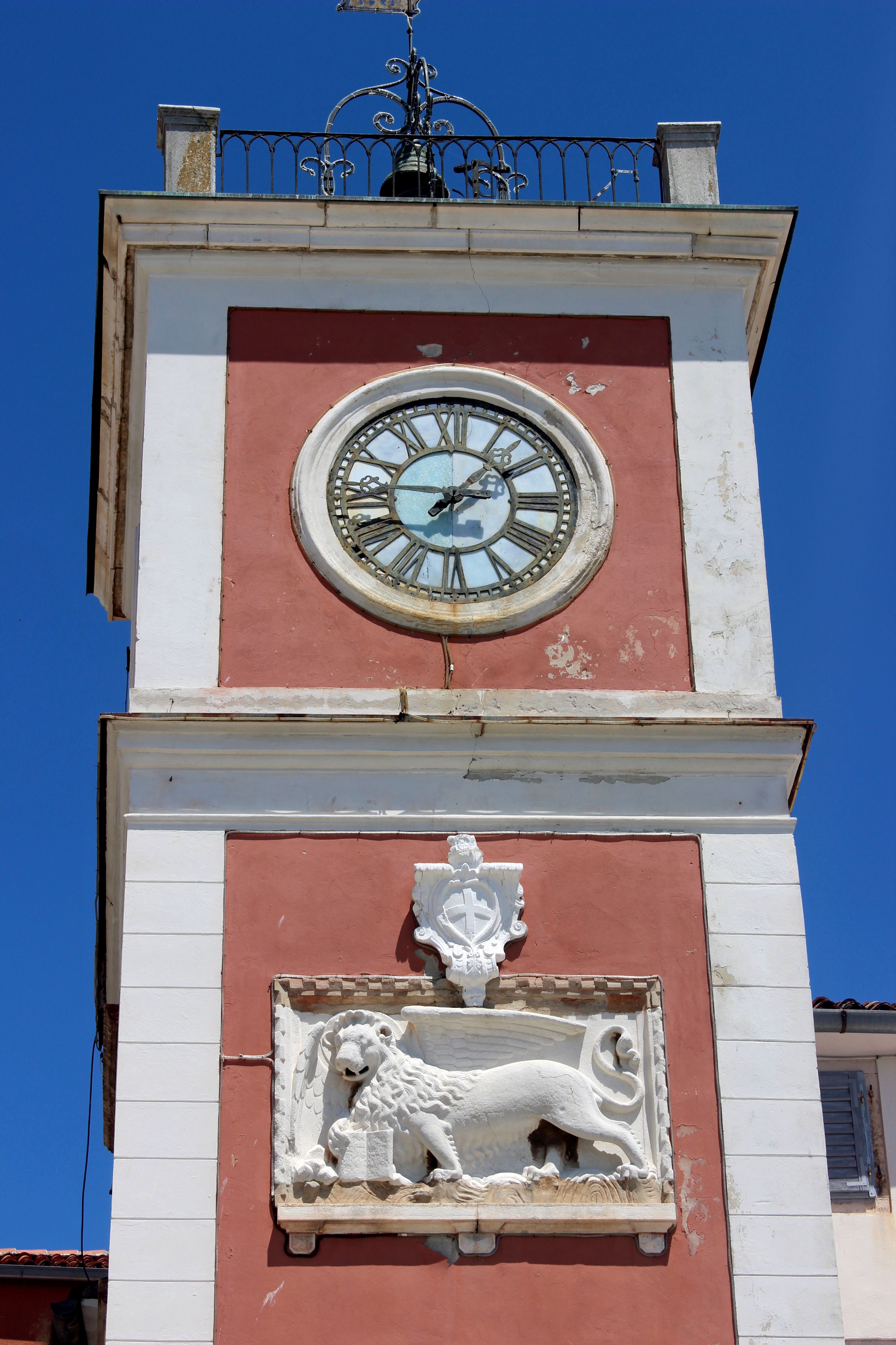 Clock tower, in Rovinj, Croatia